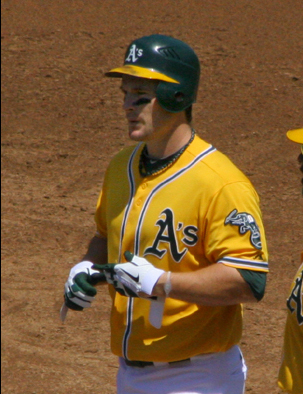 Josh Willingham with the A's in 2011